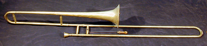 Bass trombone in E flat